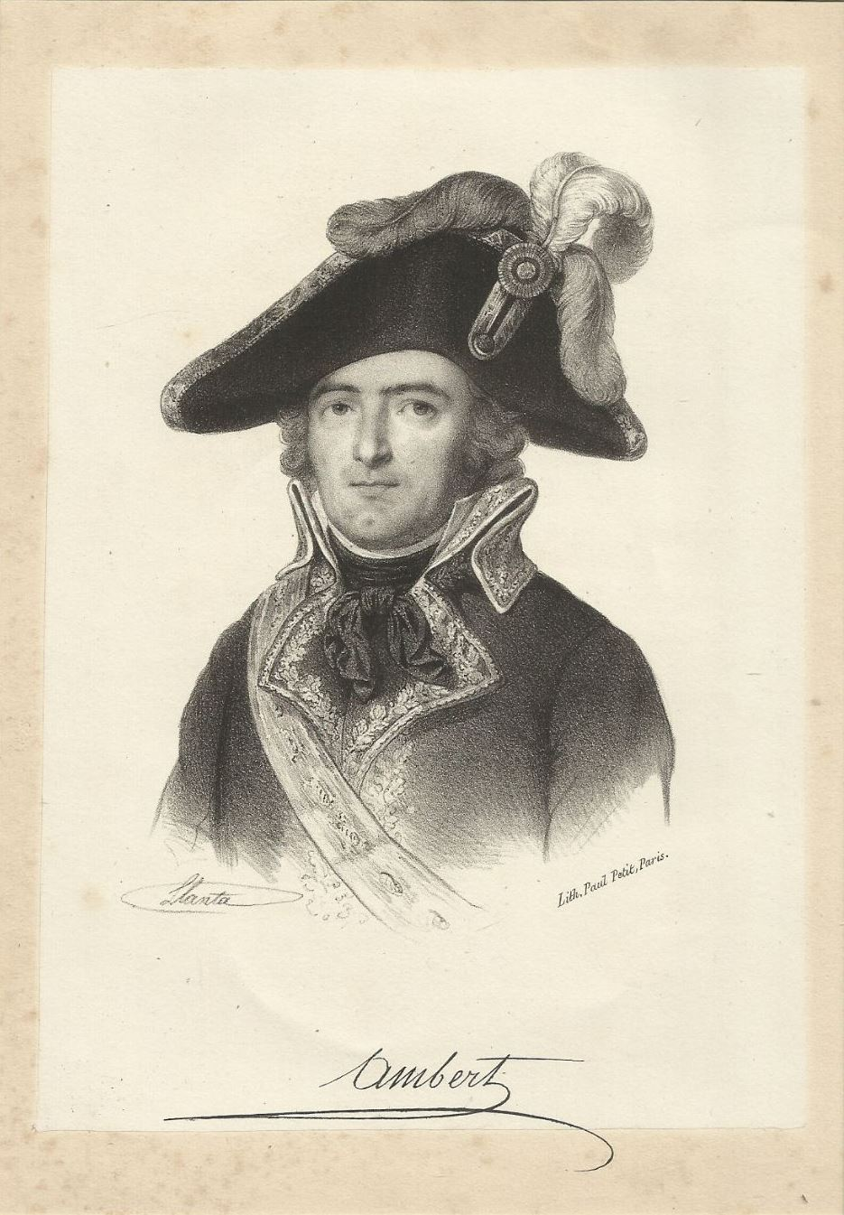 Sketch of General Jean Jacques Ambert (1765-1851) who led soldiers in the French Revolutionary Wars. Signed by artist Llanta, probably Jacques Francois Gauderique Llanta who lived c. 1835. Lithograph by Paul Petit, Paris.